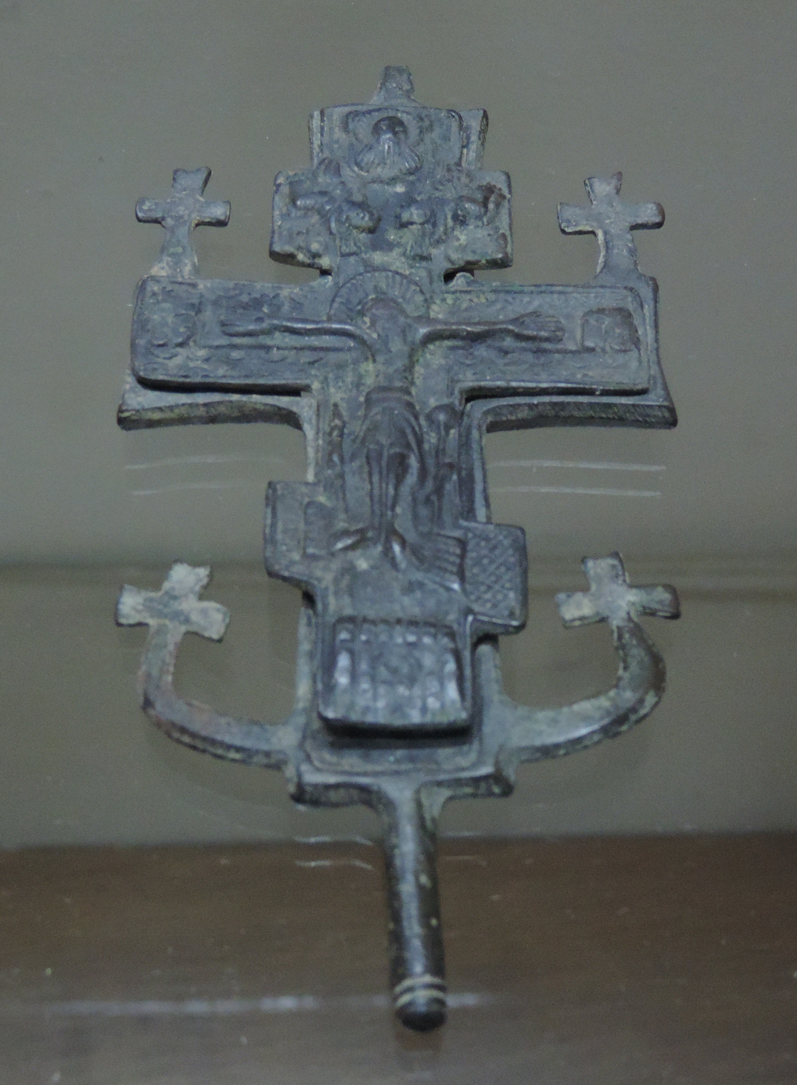 Piece of a treasure found in a medieval necropolis near the village of Negovanovtsi. Exhibit of the Regional History Museum "Konaka" in Vidin, Bulgaria